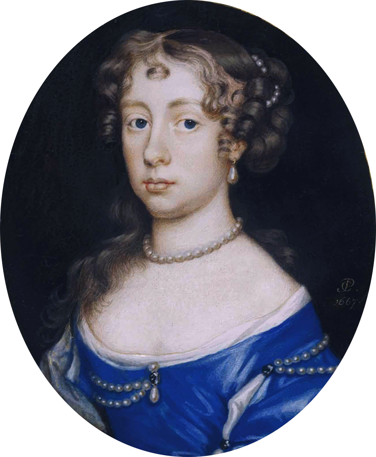 Elizabeth Stanhope, Countess of Chesterfield (d. 1677) signed in gold with monogram c.r.: PC. 1667· on vellum oval, 81 mm high